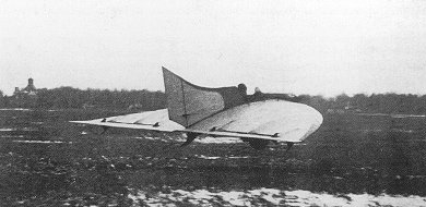 Plane Cheranovsky_BICh-3 during take-off